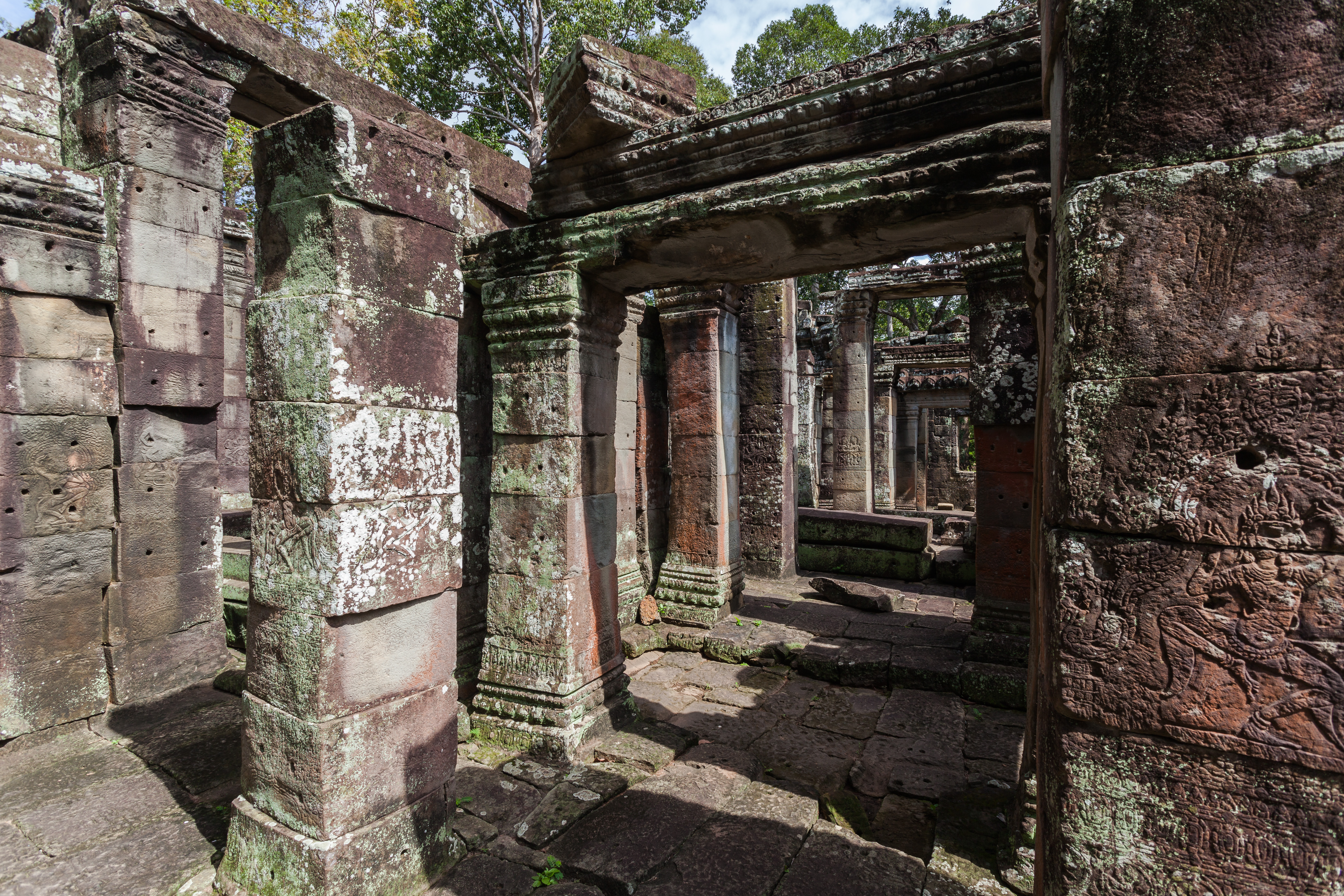 Banteay Kdei, Angkor, Cambodia